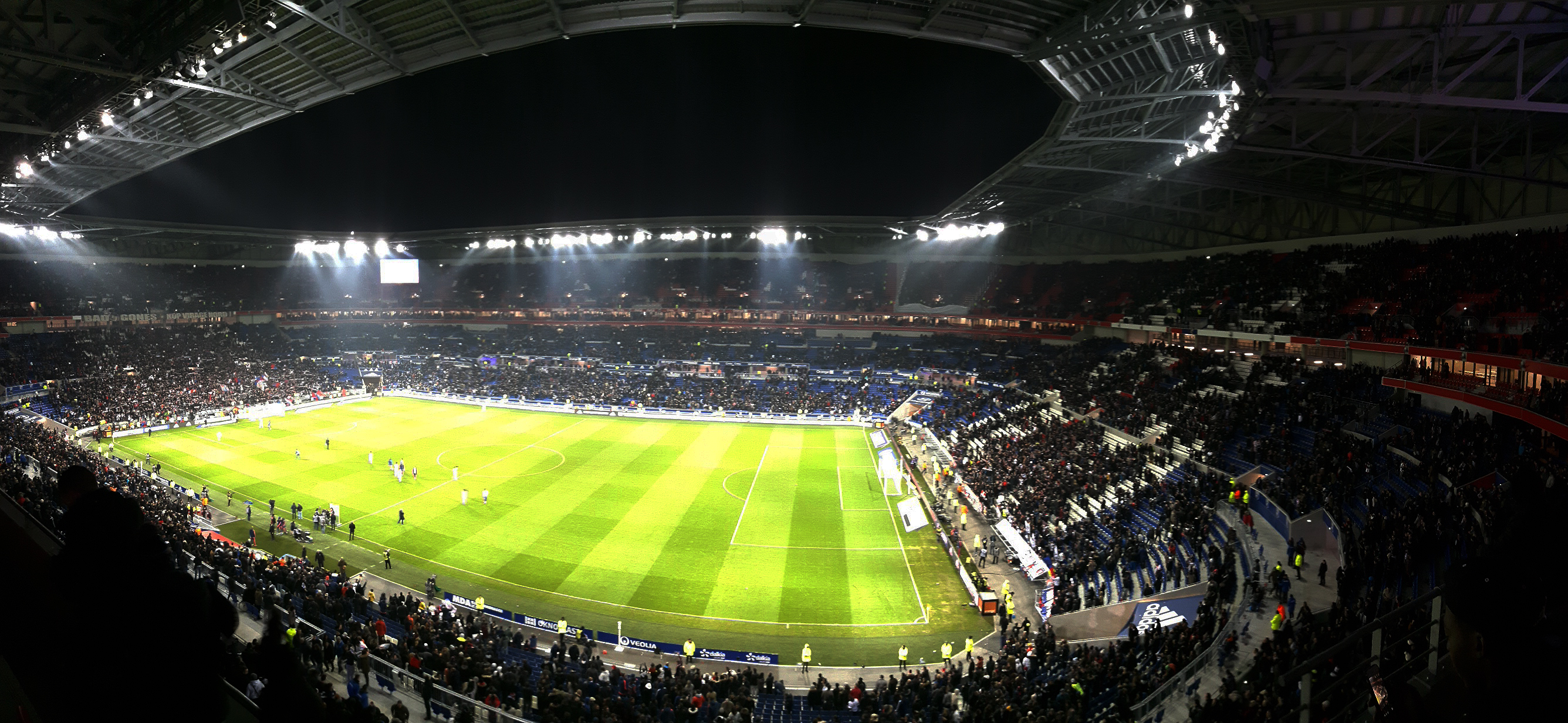 Le Stade Des Lumières lors du match OL/PSG le 28 février 2016